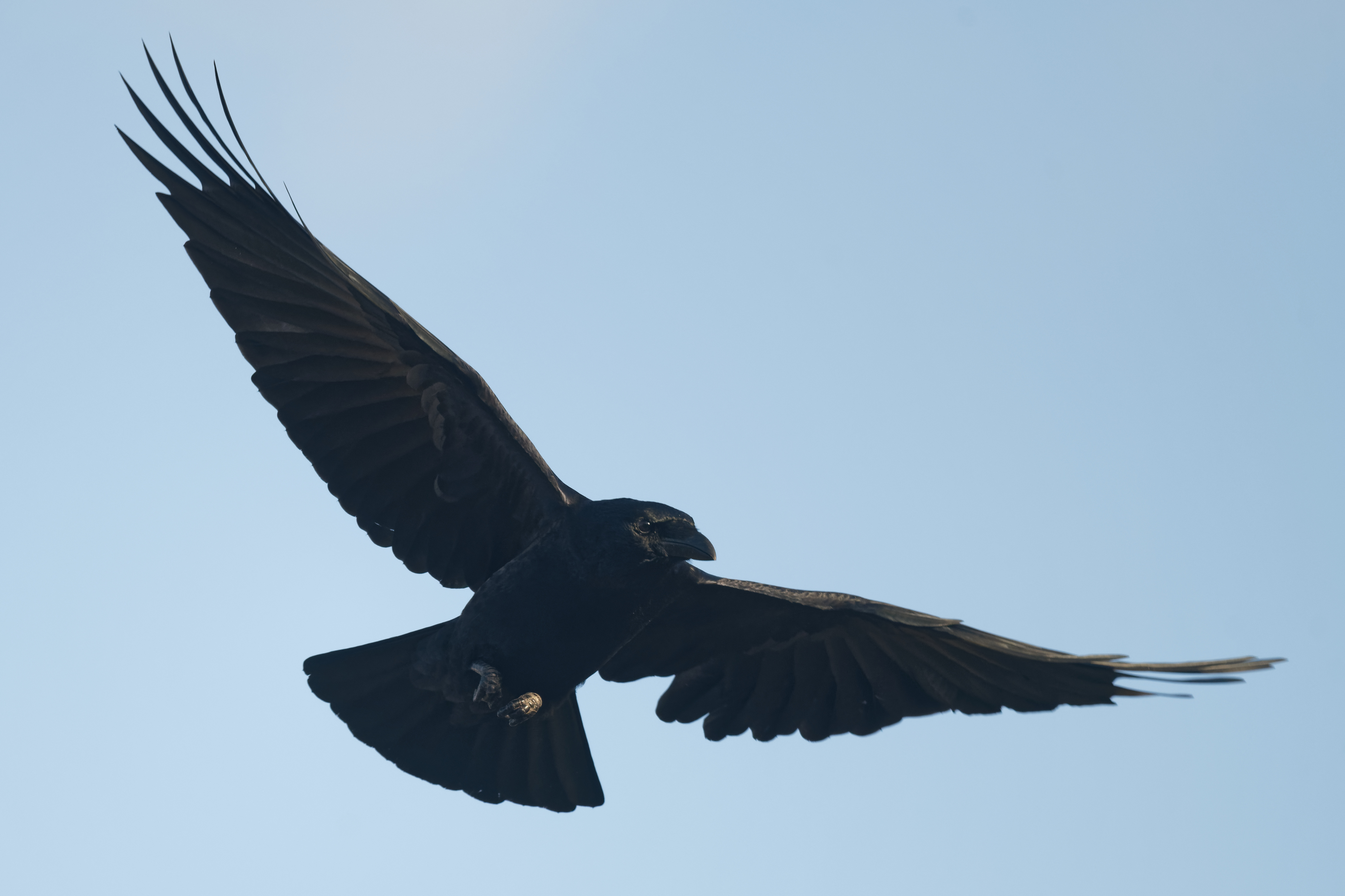 Carrion Crow (Corvus corone) in flight at the botanical school of the Jardin des Plantes in Paris.